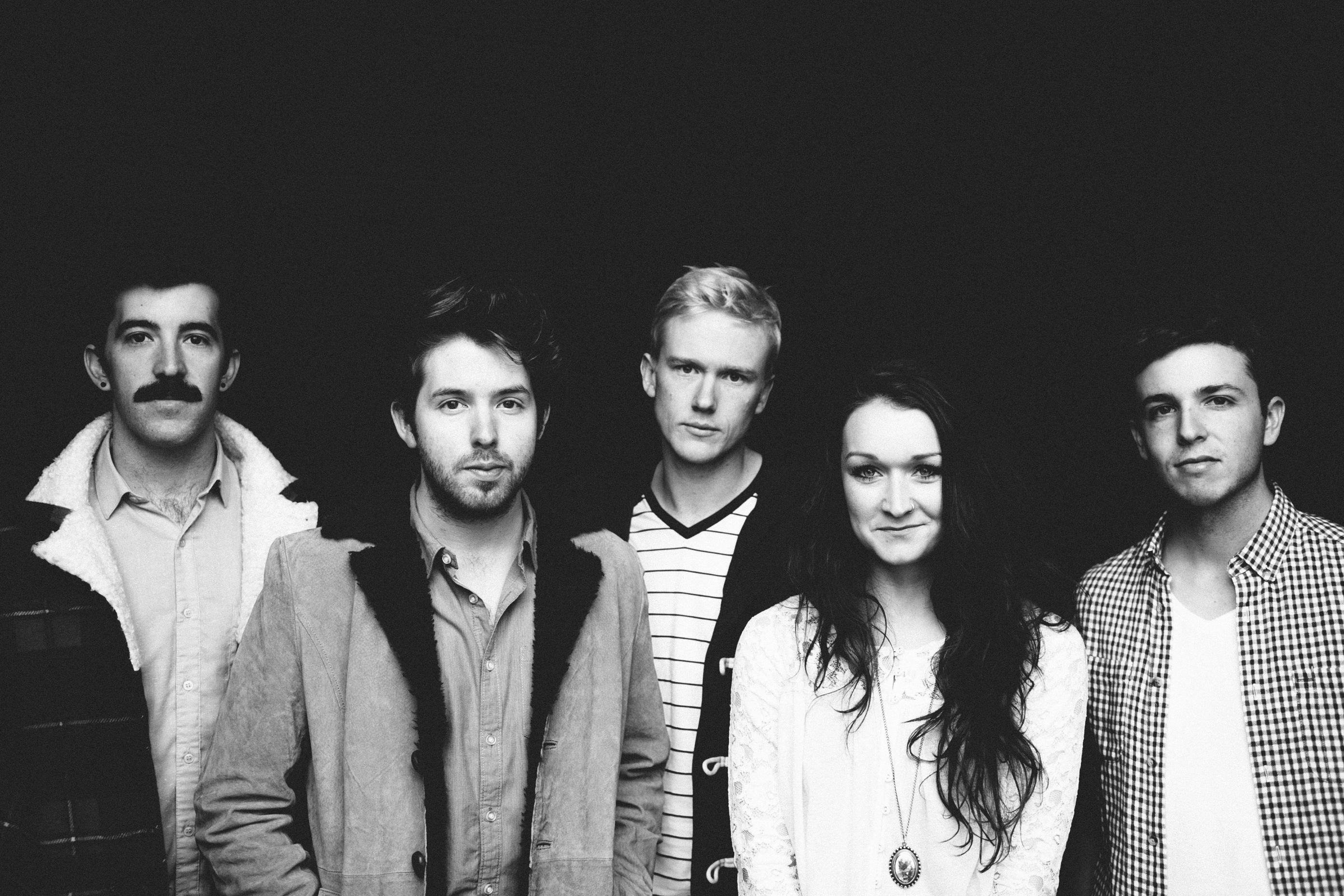 Left to Right - David Powys, Sam Bentley, Sam Rasmussen, Christina Lacy, Josh Bentley